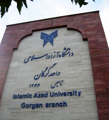 Azad University of Gorgan city in Iran. Taken by Mani Parsa